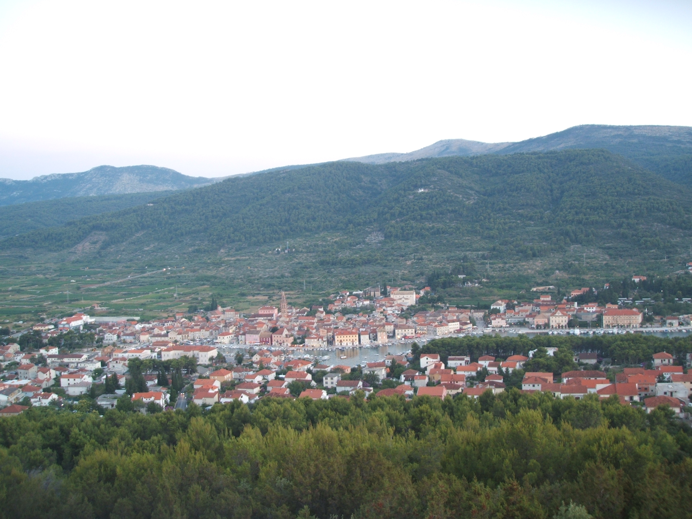 Stari Grad on the island of Hvar - the view from the hill Glavica.